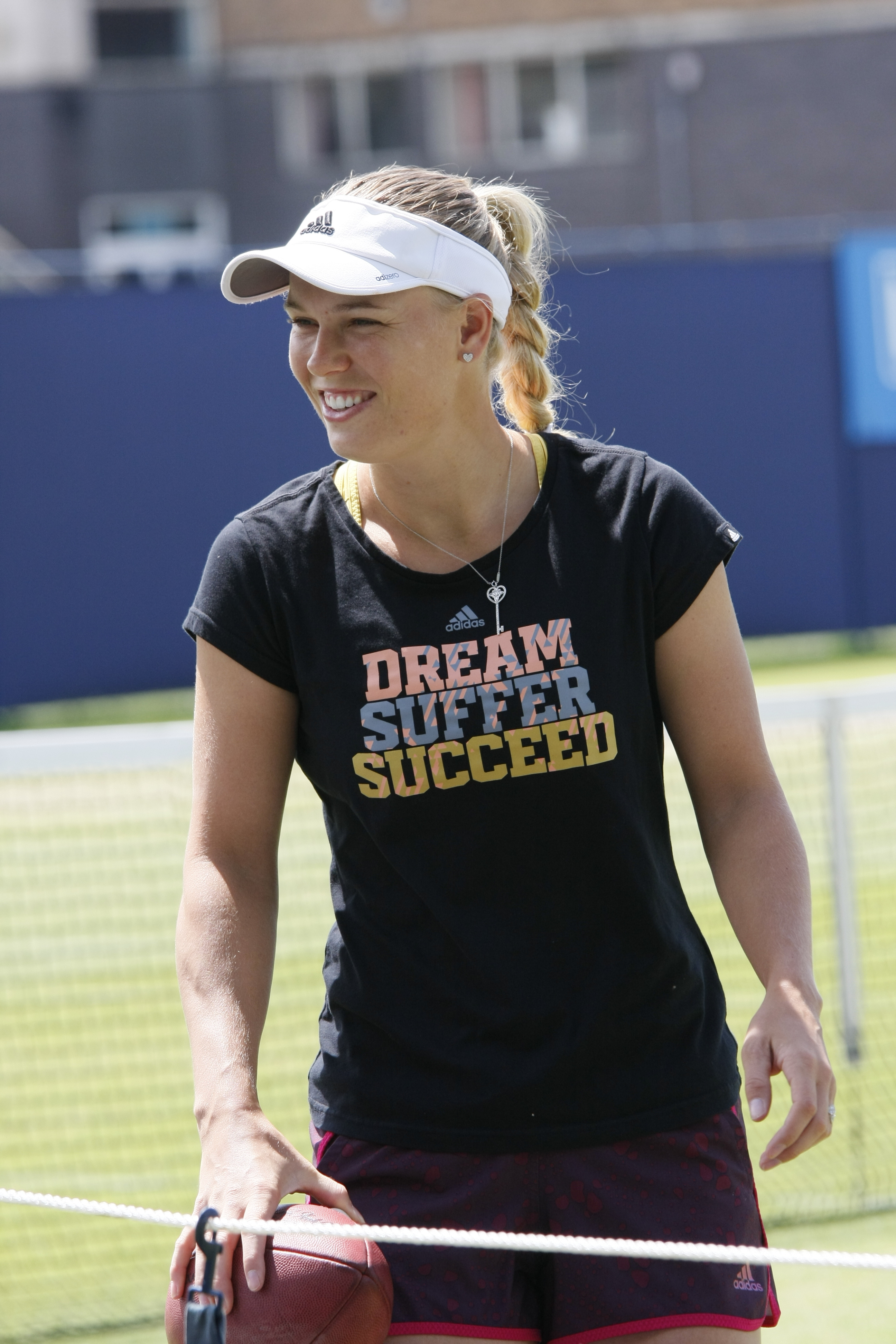 Aegon International Tennis, Devonshire Park, Eastbourne June 2015